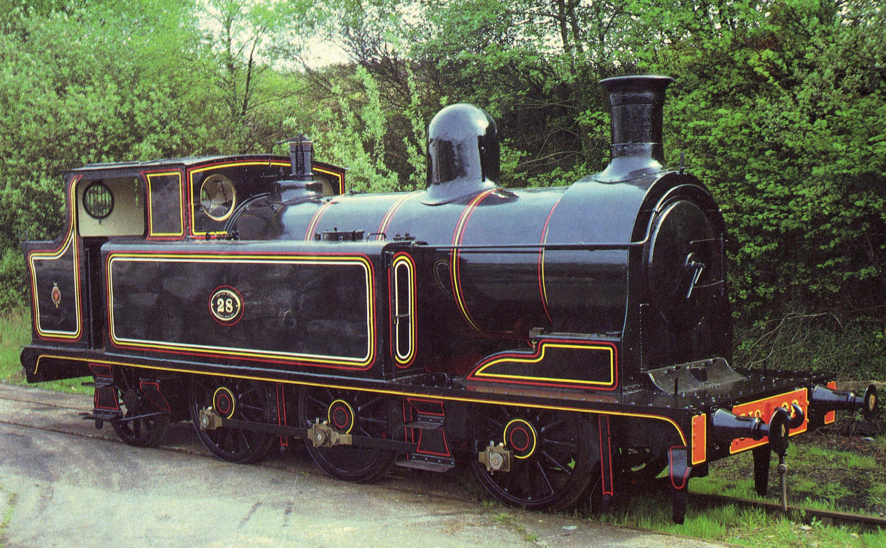 Photograph of No 28 taken when first restored to working order by the Caerphilly Railway Society in 1983 Taff Vale Railway O1 class